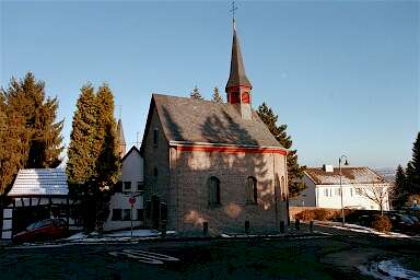 Ginggasse/Staffelsgasse in Alfter-Oedekoven, Germany.